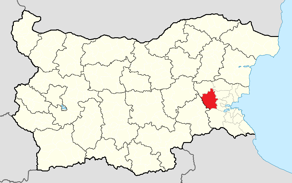 Location map of Karnobat Municipality within Bulgaria and Burgas Province Equirectangular projection, N/S stretching 130 %. Geographic limits of the map: N: 44.4° N S: 41.1° N W: 22.1° E E: 28.9° E